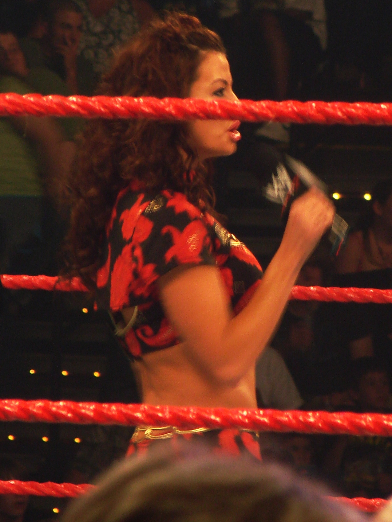 Candice Michelle hosting the kiss cam. Nashville Arena, Nashville, TN, April 30en:2007. Taken by me.